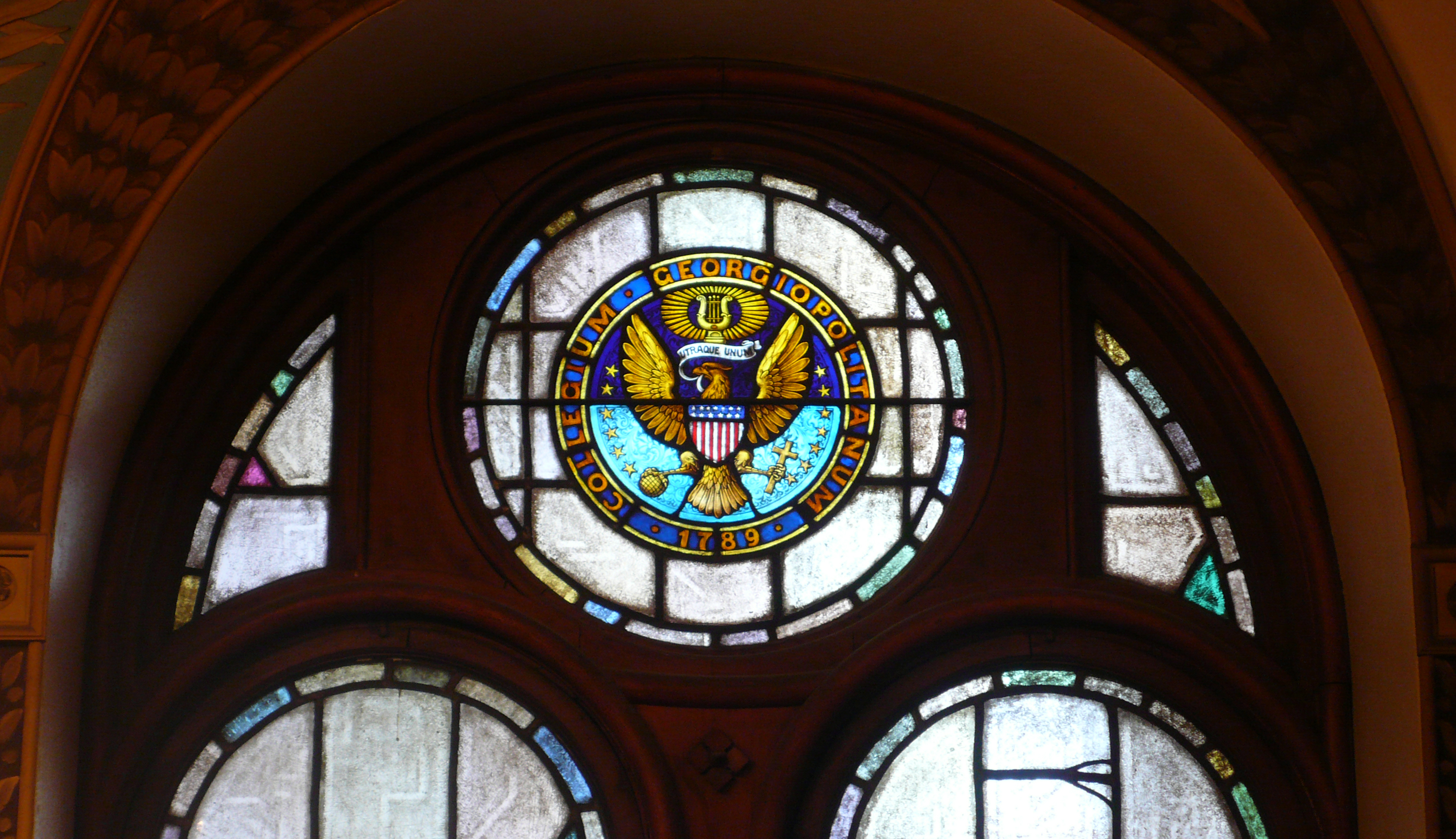 Photo of a stained glass window outside the university president's office in Healy Hall on Georgetown University's campus. The window depicts the old version of the school seal, which was used from 1844 to 1977, and current during the building of Healy Hall in 1877. for further information.